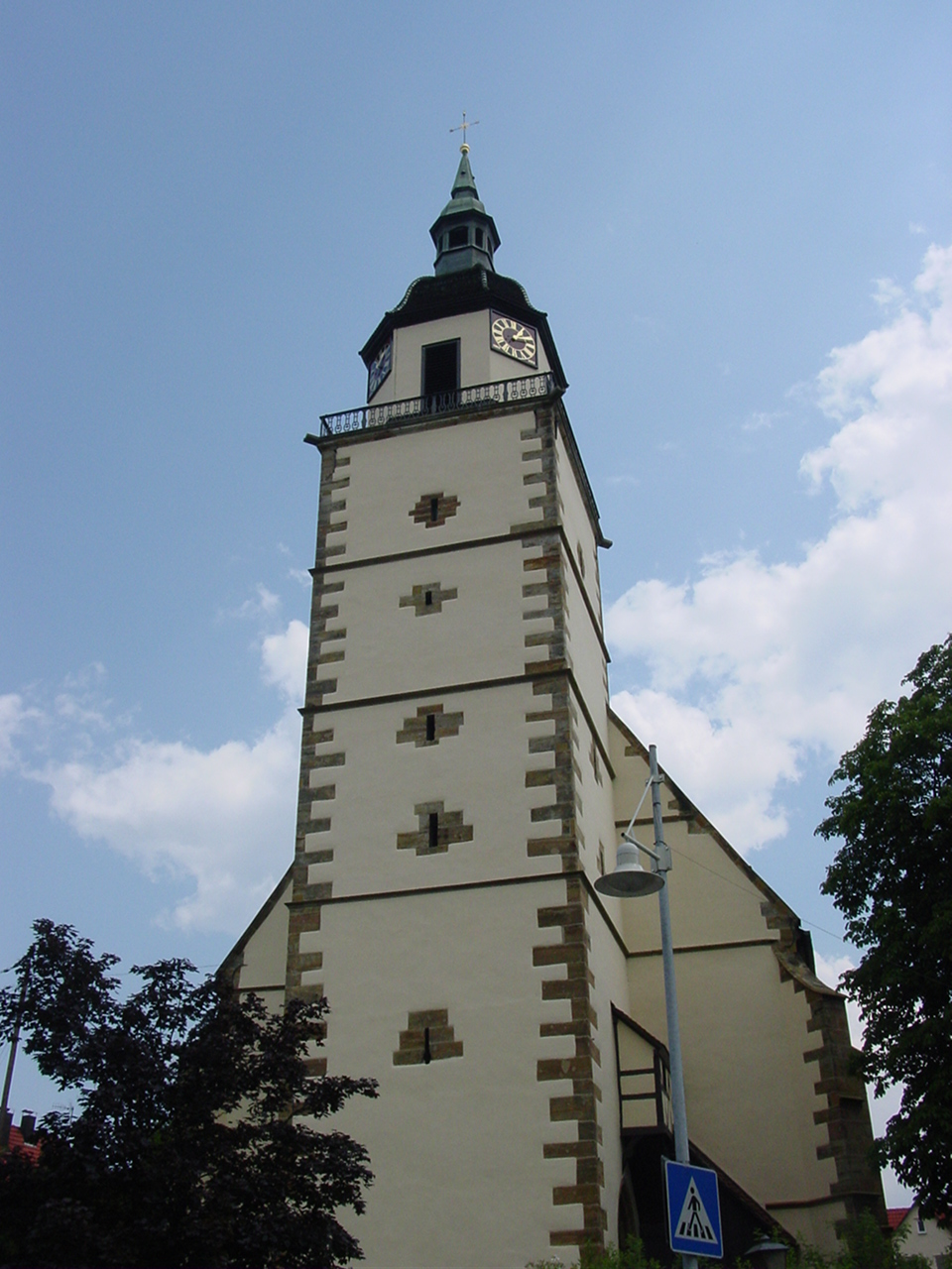 The Peterskirche (St. Peter's Church), a Protestant church (Evangelical Church in Germany) in Weilheim an der Teck, Germany. Taken by myself, Ryan W. Frederick